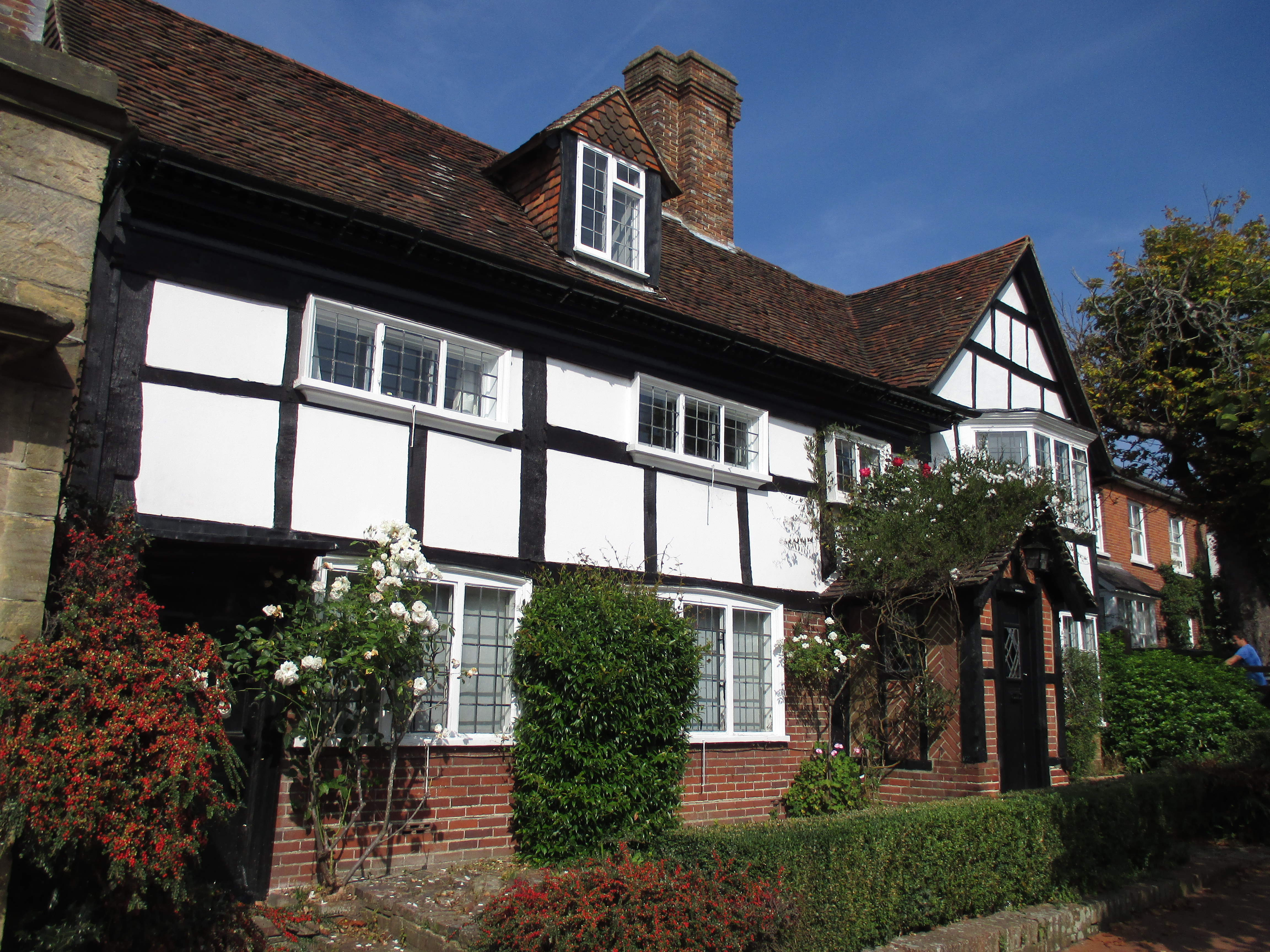 Kingsleys (formerly Attrees), High Street, Cuckfield, West Sussex. It was once the home of the Victorian novelist Henry Kingsley.